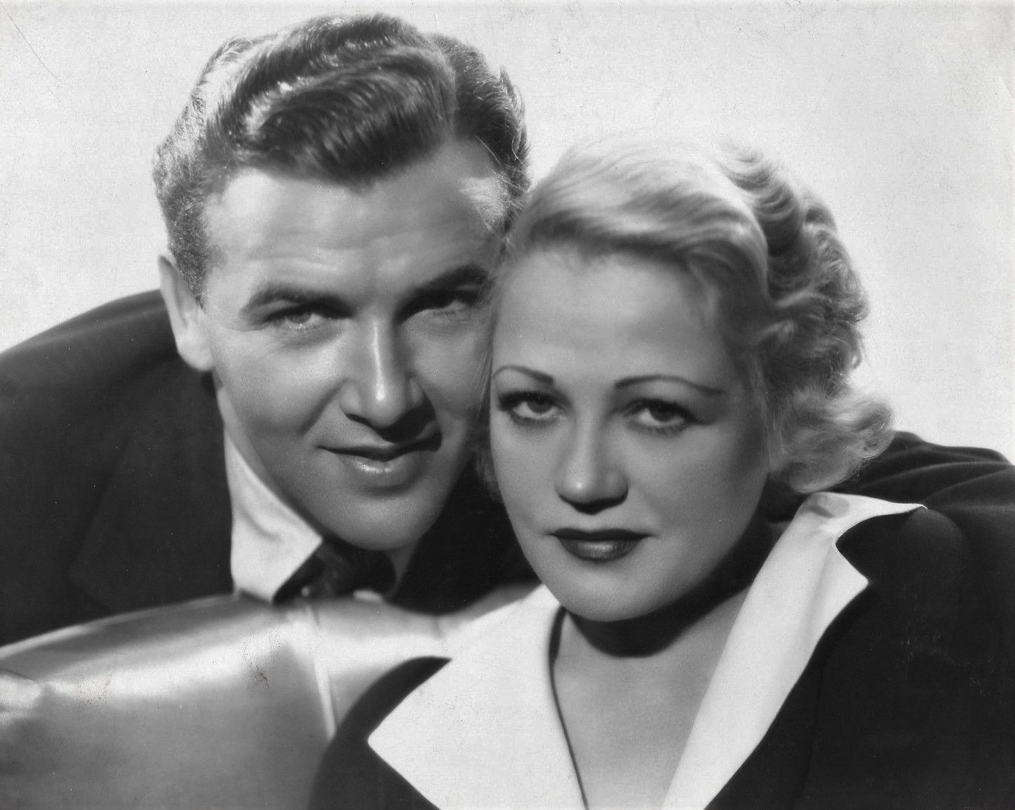 Preston Foster and Wynne Gibson in Sleepers East - publicity still (original image damaged, modified and cropped: see source)